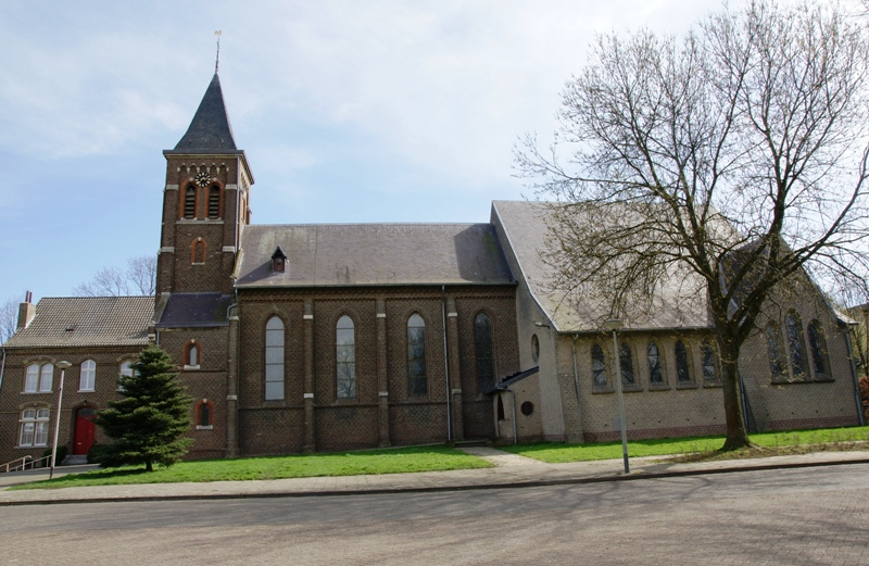 H. Hart van Jezuskerk, Oud-Caberg, Maastricht, The Netherlands.